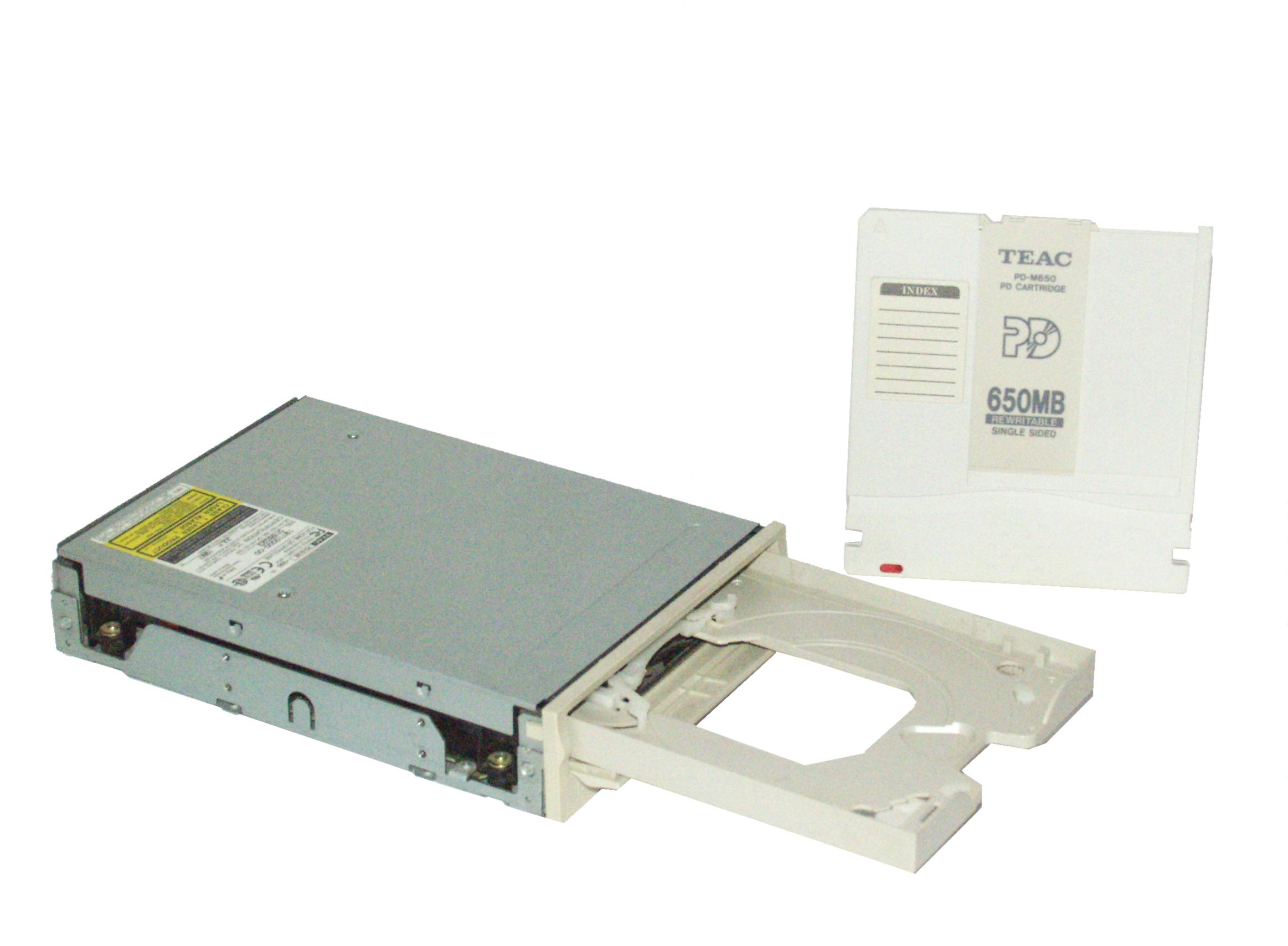 TEAC PD-518E with TEAC PD-M650. Picture taken by ocrho.